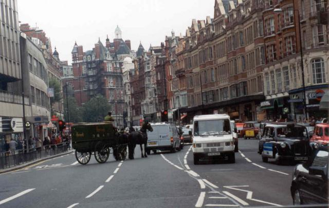 Brompton Rd, London looking north from Harrod's.